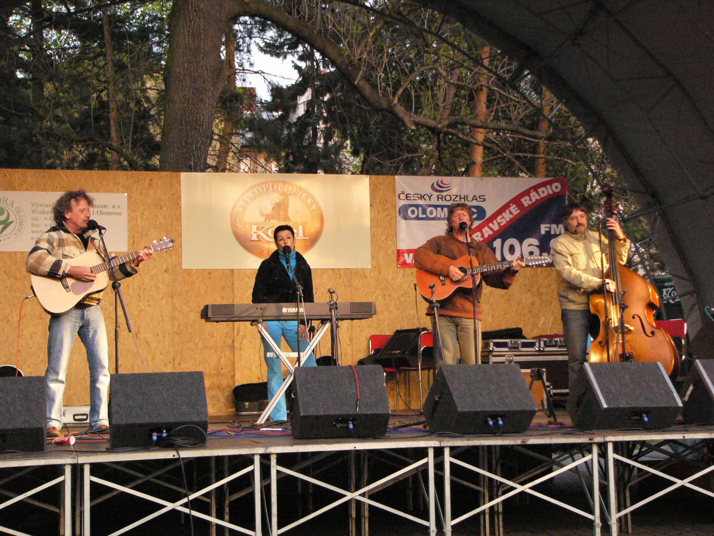 Czech folk music group Nezmaři. From the left: Tonda Hlaváč, Šárka Benetková, Pavel Zajíc a Pavel Jim Drengubák